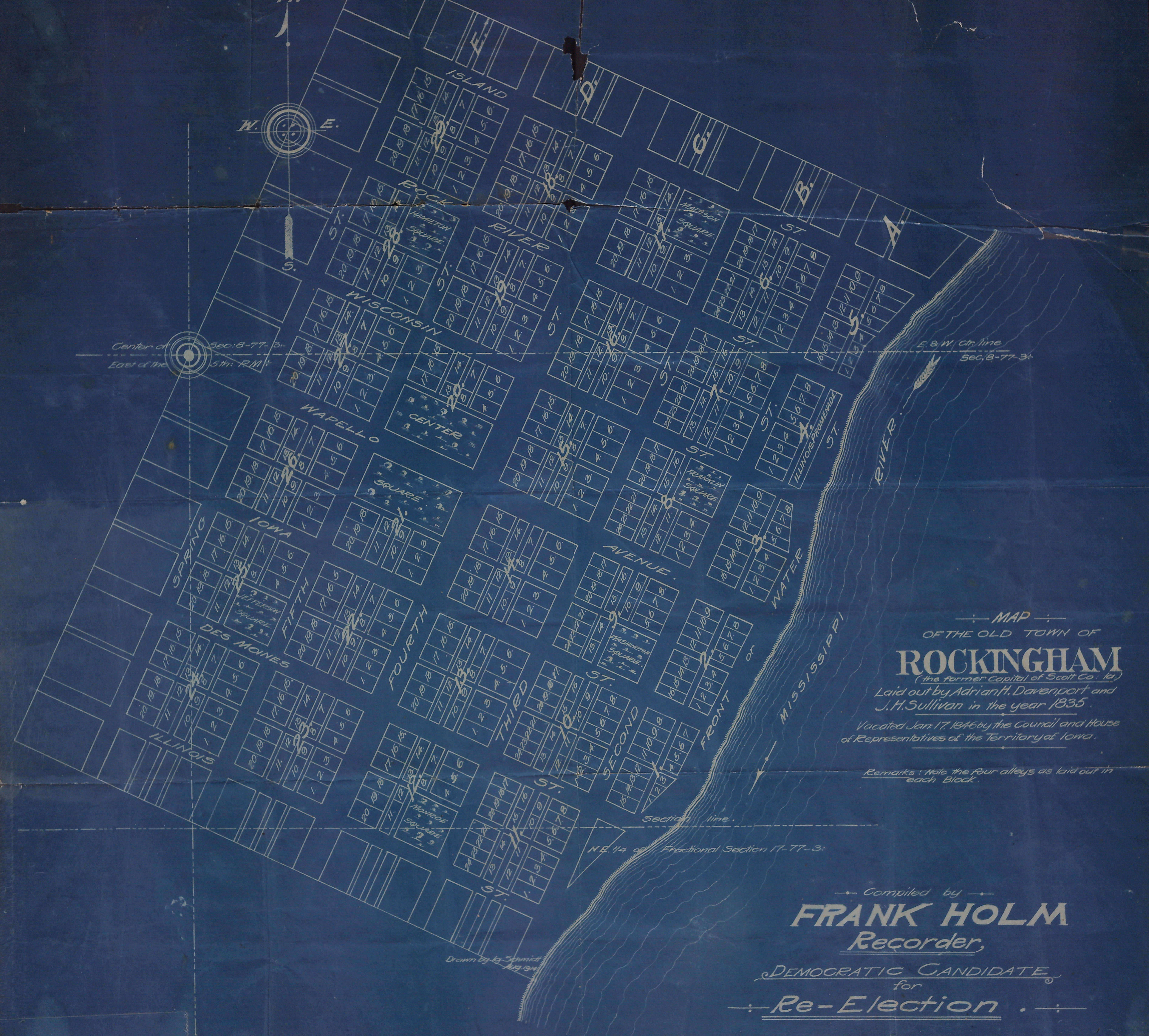 This is a map that the Richardson-Sloane Special Collections Center sent to me from their files. It appears to depict street layouts and the like of Rockingham Township. Text on the blueprint: Map of the Old Town of Rockingham (the former Capital of Scott Co: Ia.) Laid out by Adrian H. Davenport and J. H. Sullivan in the year 1835. Vacated Jan: 17. 1846 by the Council and House of Representatives of the Territory of Iowa. Compiled by Frank Holm Recorder, Democratic Candidate for Re-Election.